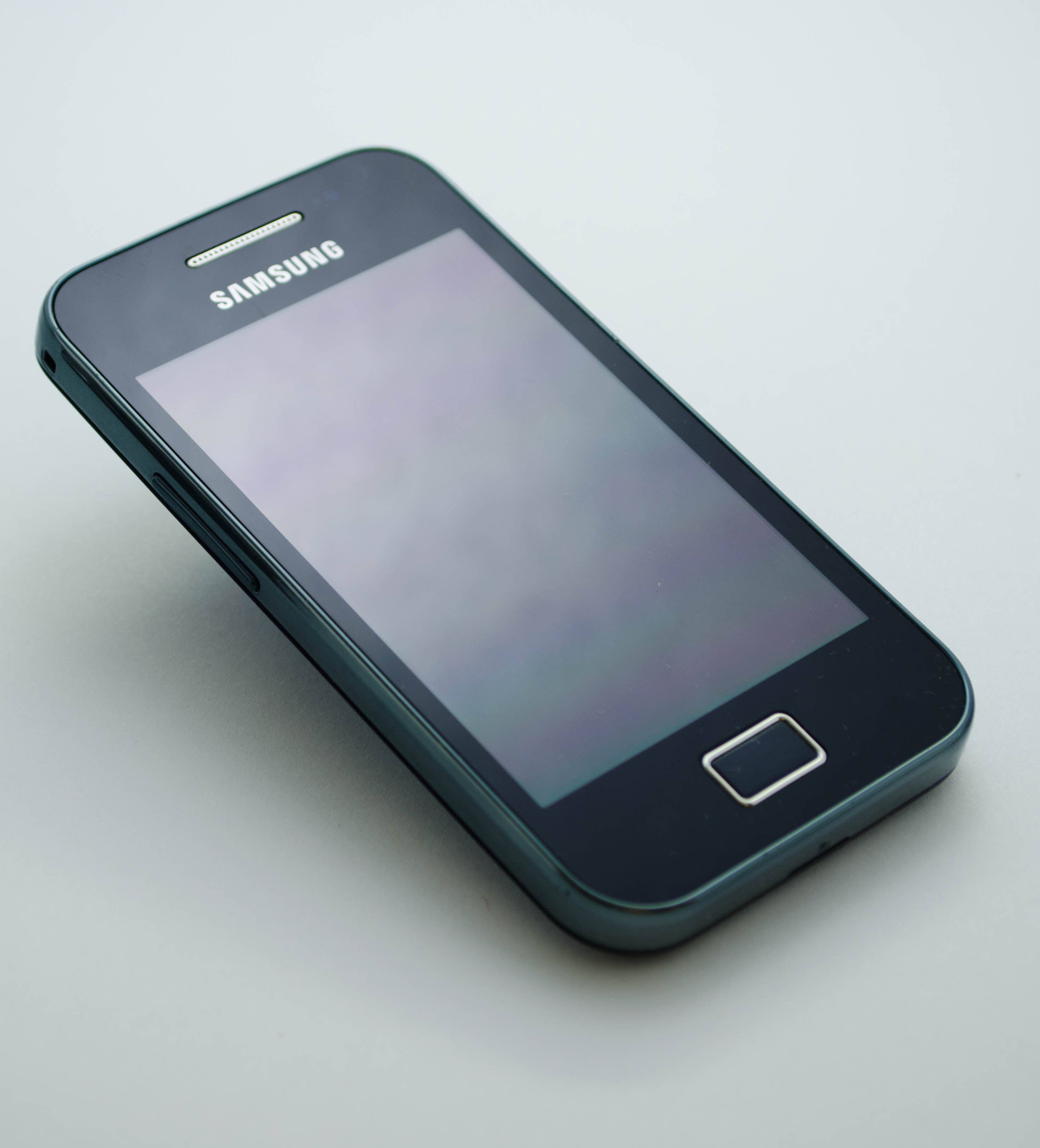 Samsung Galaxy Y